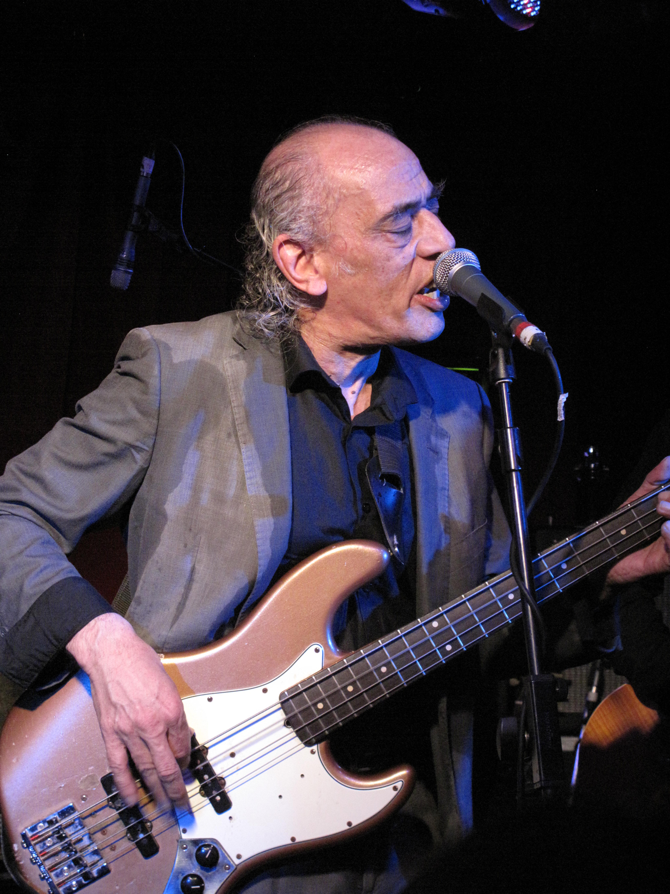 Norman Watt-Roy at Water Rats, London, 13.07.11